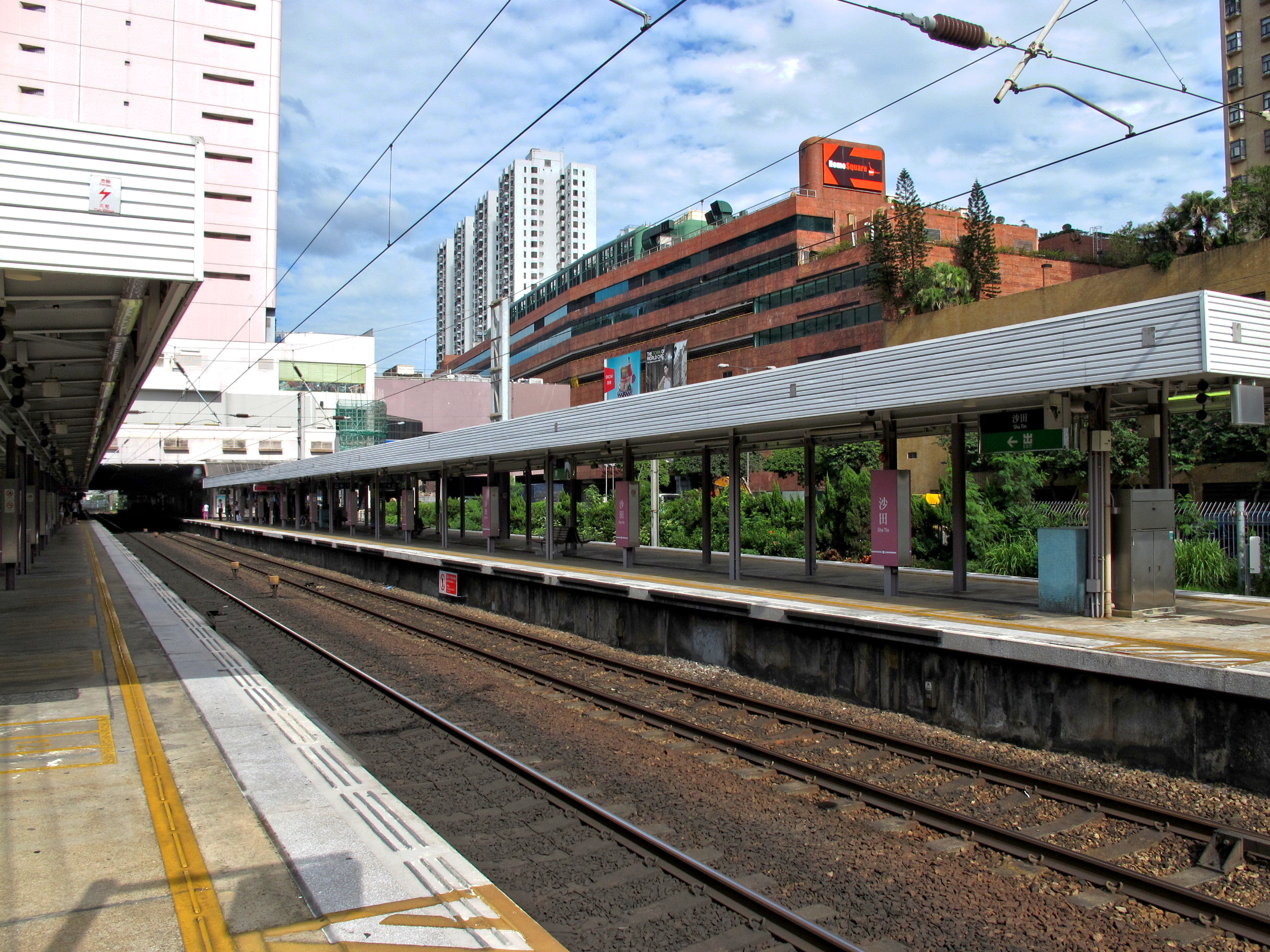 Sha Tin Station Platform 沙田站月台